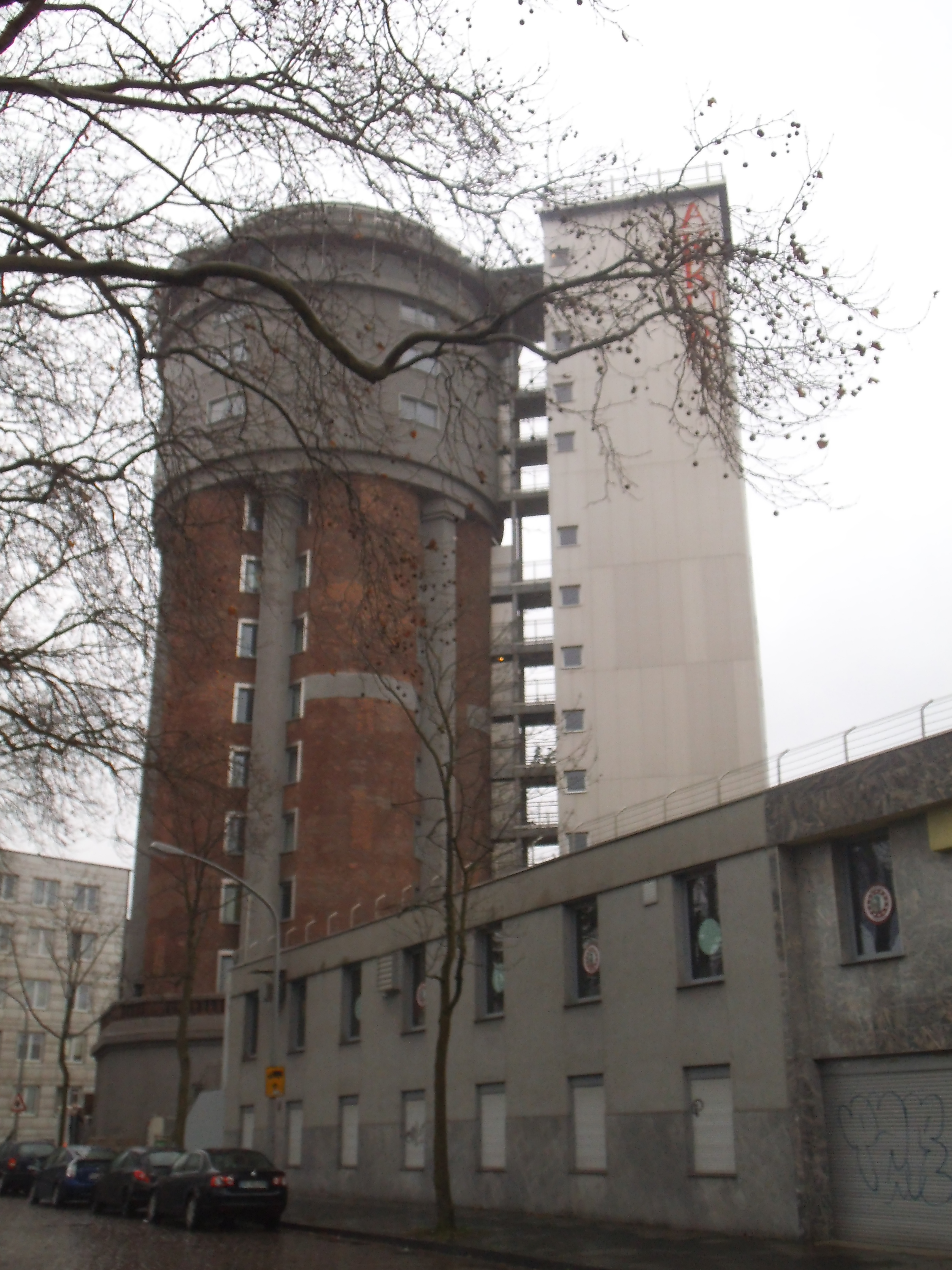 historical industrial place in Duisburg